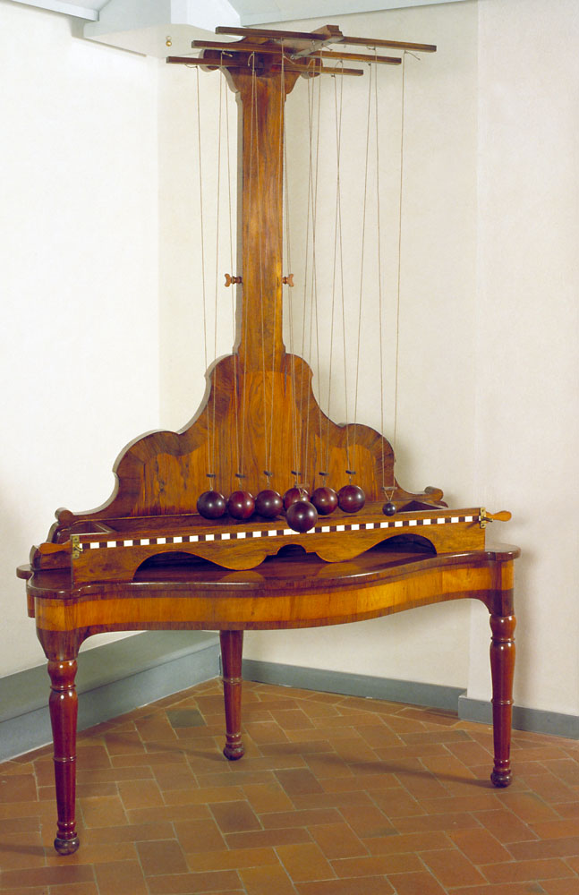 Author Unknown authorDescription